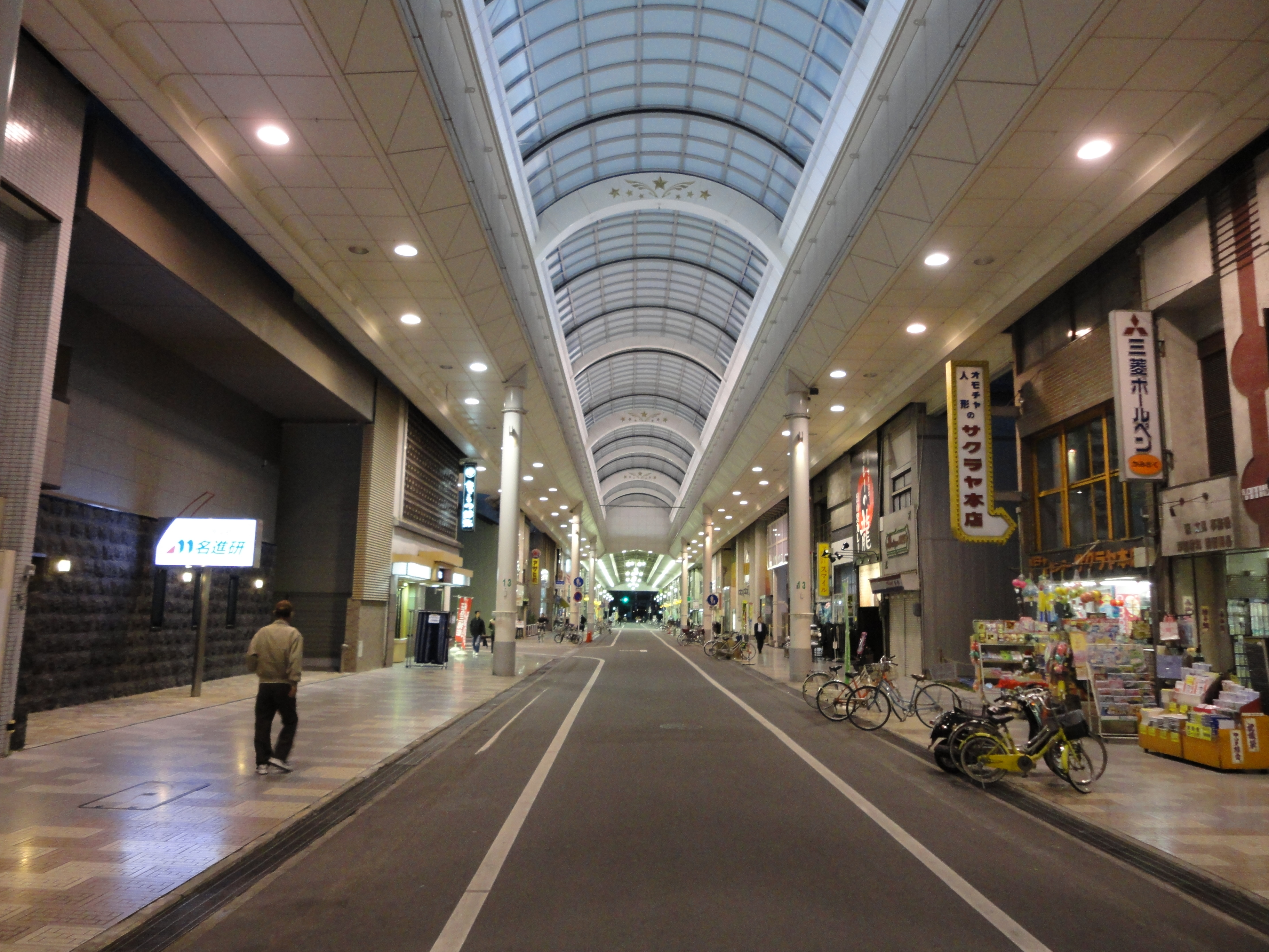 Template:愛知県一宮市 本町商店街